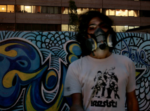 The Iranian Pioneer Urban Artist